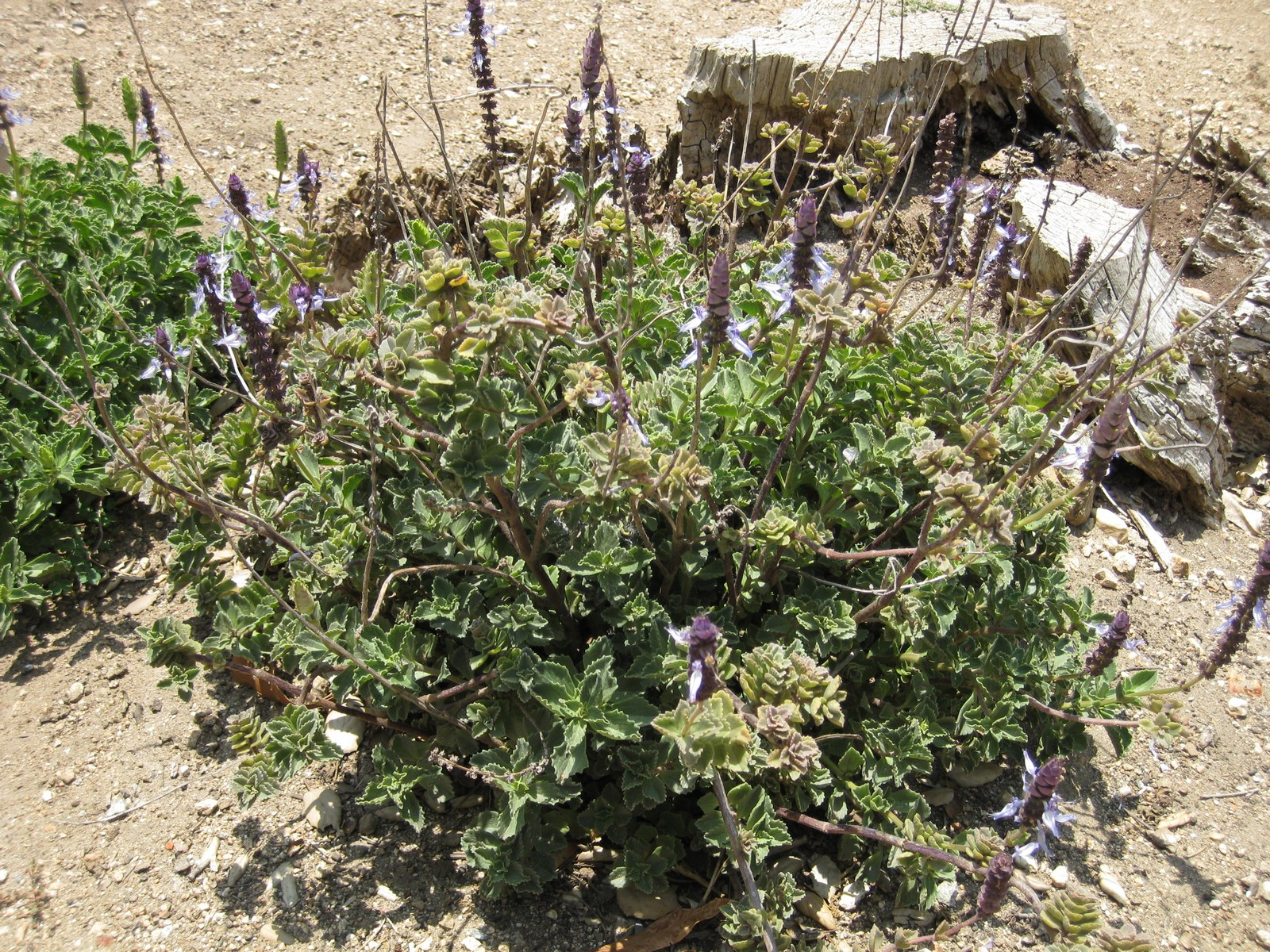 Photographed at Huntington Gardens (Los Angeles, California) in June